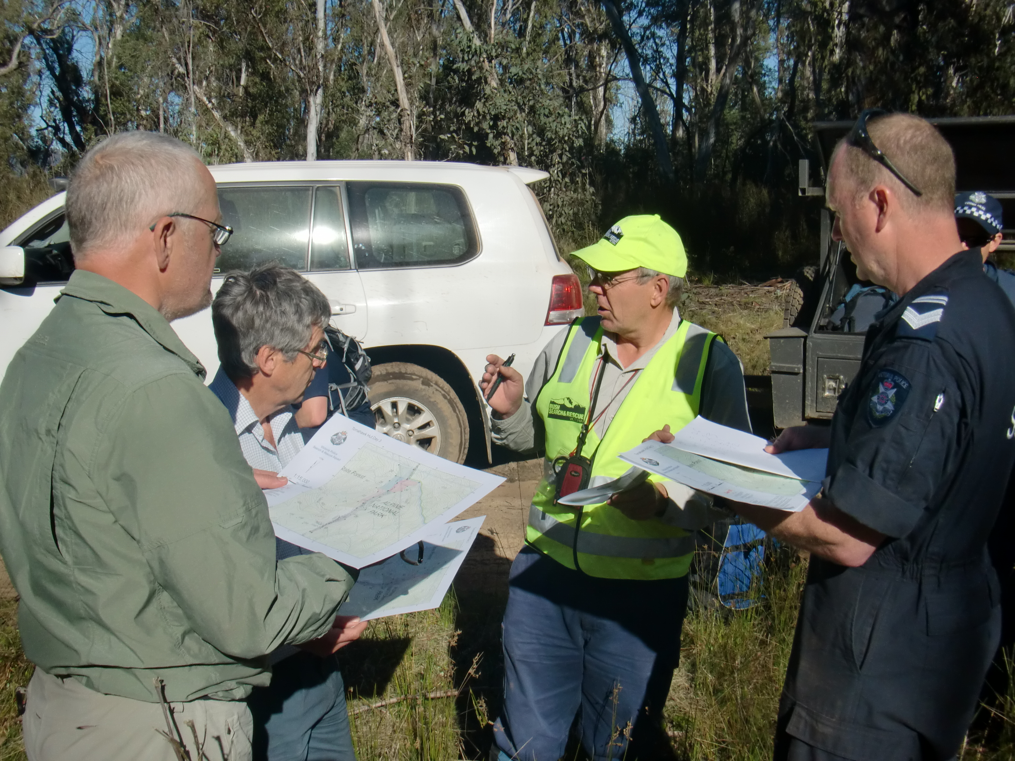 Bush Search and Rescue volunteers being briefed by member of Victoria Police Search and Rescue Squad during search for David Prideaux near Tomahawk Hut